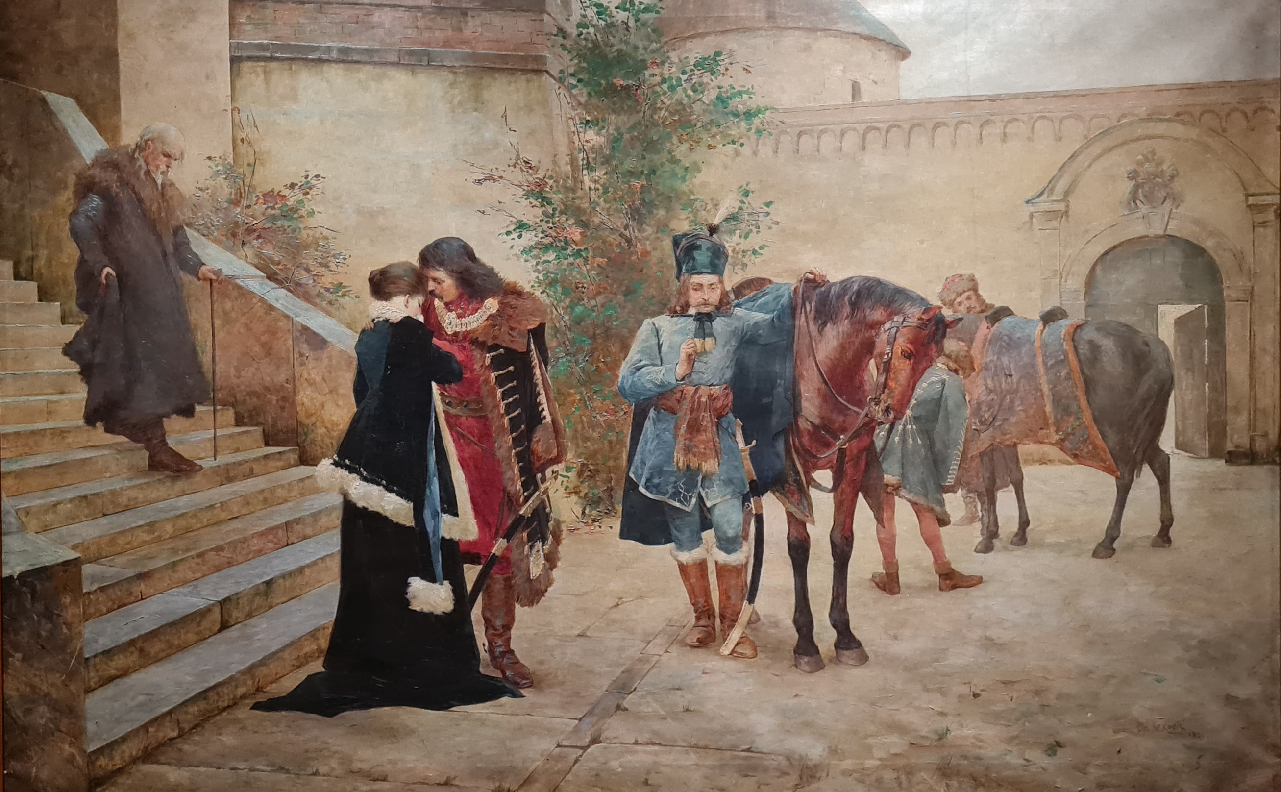 Petar and Katarina Zrinski's last farewell in Čakovec in 1670. Author: Oton Iveković, Croatian painter (1897)